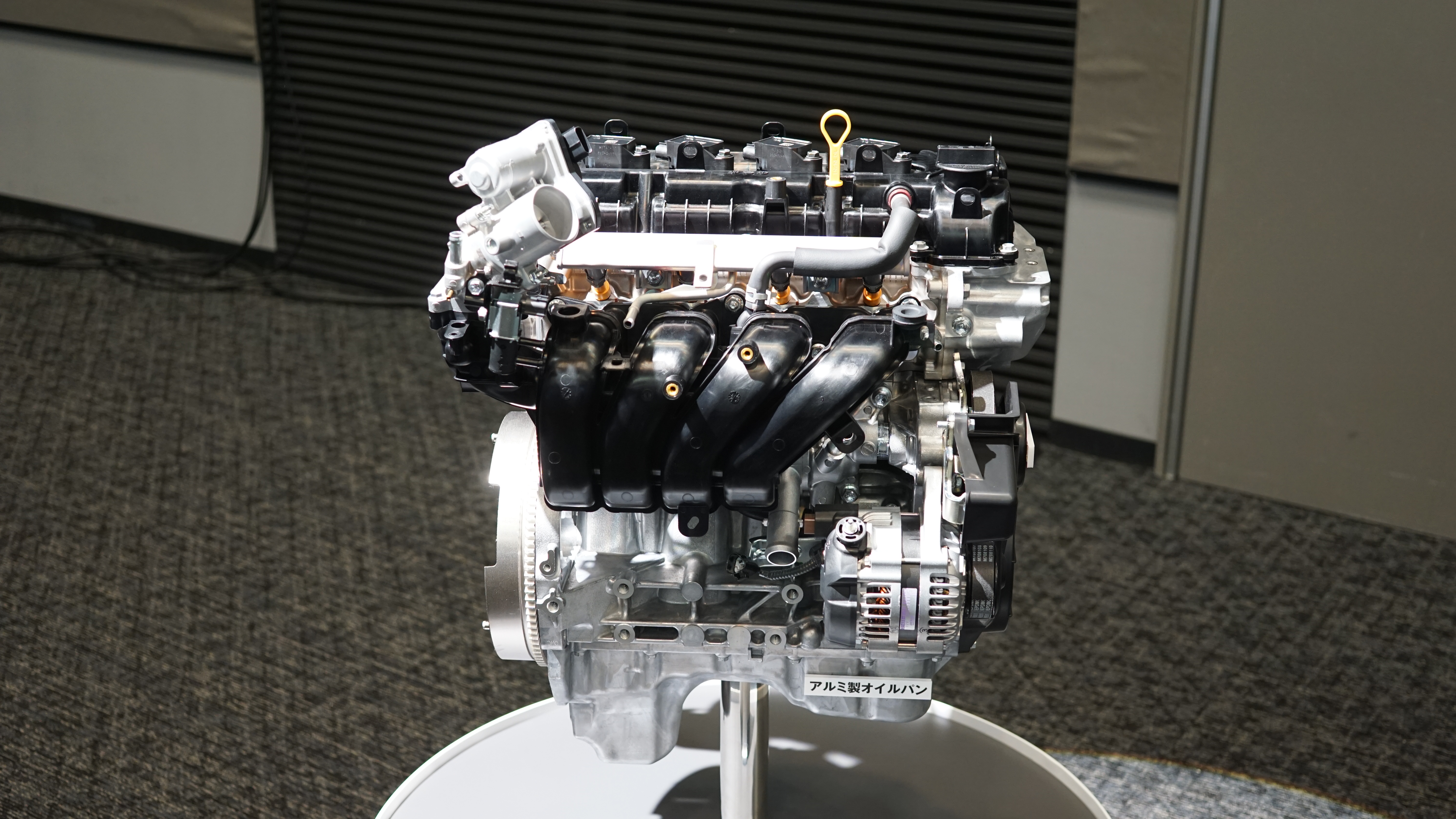 K15B engine, used by the Suzuki Jimny Sierra JB74.